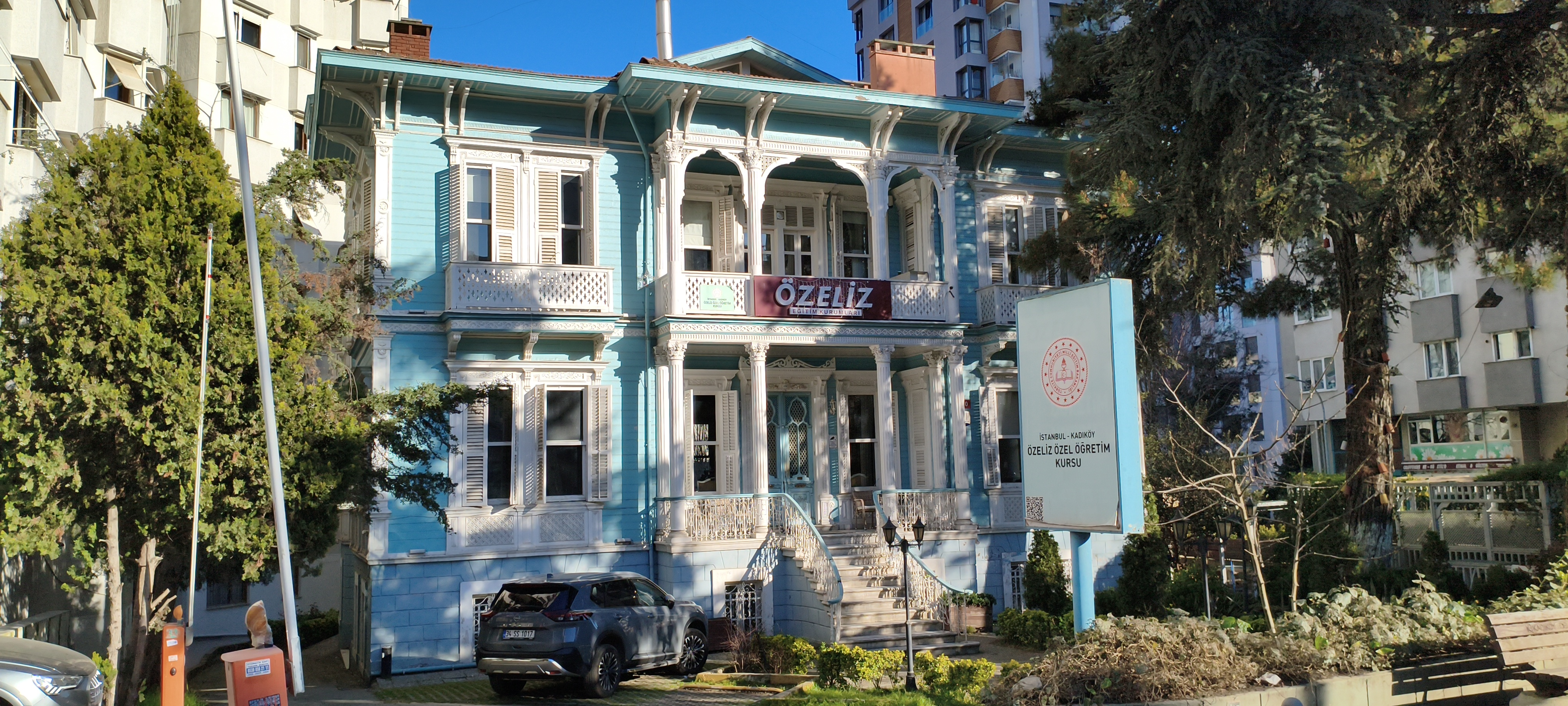 Zülüflü İsmail Paşa'nın Köşkü